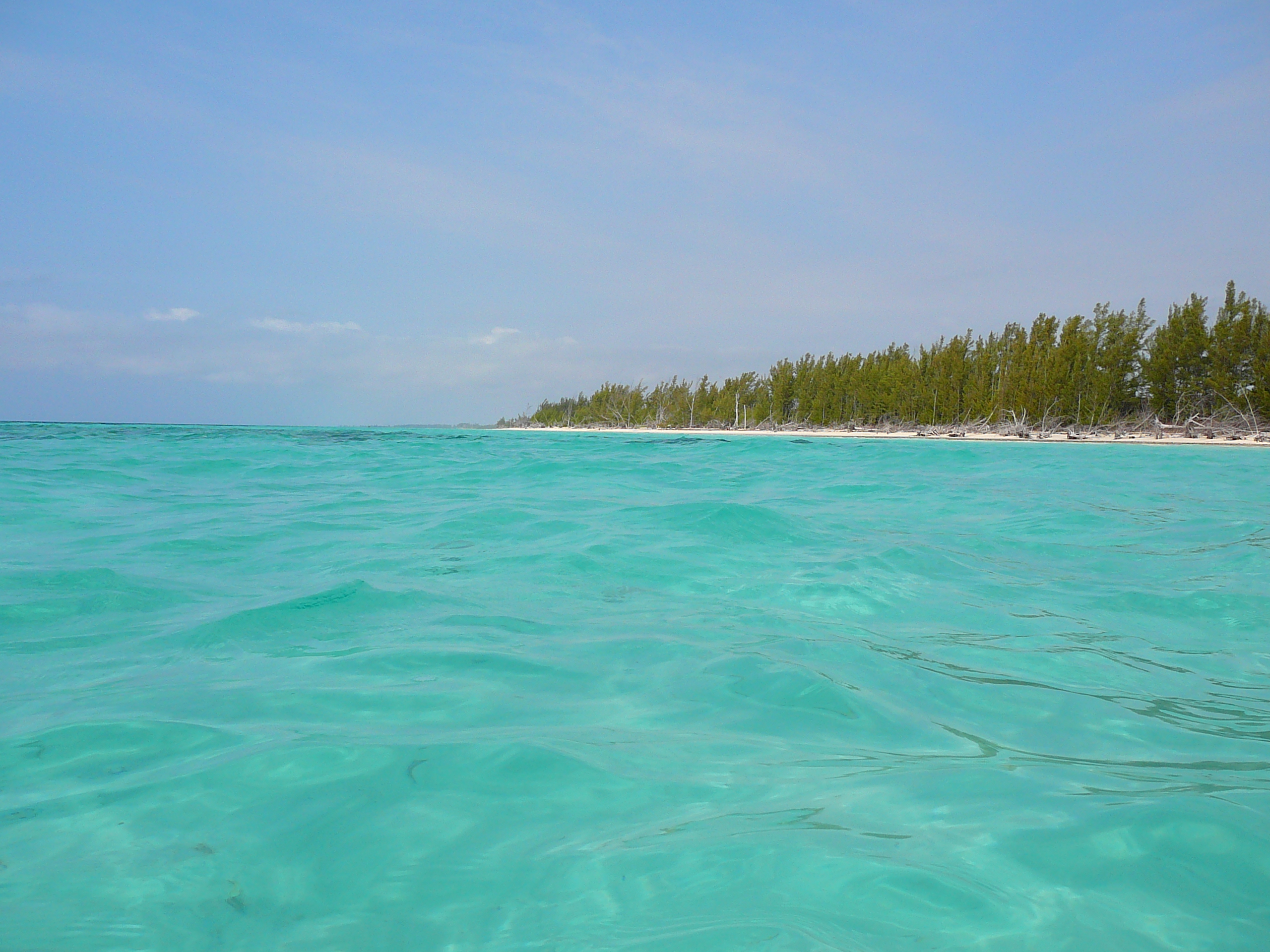 Digital photo taken by Marc Averette. Gold Rock Beach on Grand Bahama Island.